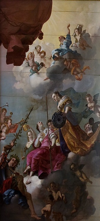 Ceiling painting in Herengracht 497, Amsterdam (Kattenkabinet). Originally from the workshop of Albert van Spiers or Gerard de Lairesse